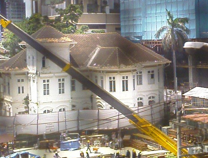 Sathon Mansion during construction of the Sathorn Square and W Bangkok.